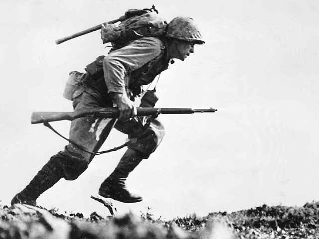 A US Marine charges through Japanese machine gun fire on Okinawa, main Ryukyu island, 375 miles from Japan. Marines and infantrymen of the US 10th Army controlled three quarters of Okinawa three weeks after landing on the island March 31, 1945. By May 28, Americans were breaking through the enemys southern defense line anchored in Naha, the capital. Major General Fred C. Wallace, commander of Okinawa Island, has announced that the Okinawa Island group will be developed into the most powerful base in the history of warfare, including many new airfields from which US bombers can sow destruction upon every industrial target in the Japanese held territory.